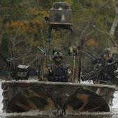 Image of Special Operations Craft-Riverine (SOC-R0